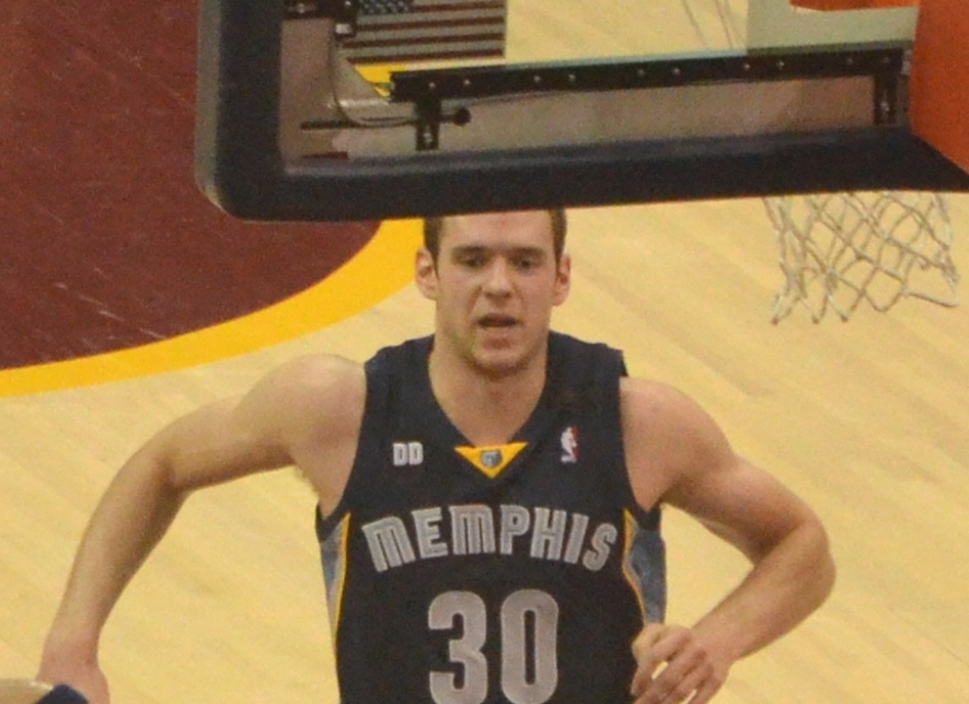 Cleveland Cavaliers player Tristan Thompson prepares to shoot the ball while pursued by Memphis Grizzlies players Jon Leuer (behind) and Jerryd Bayless (to left).